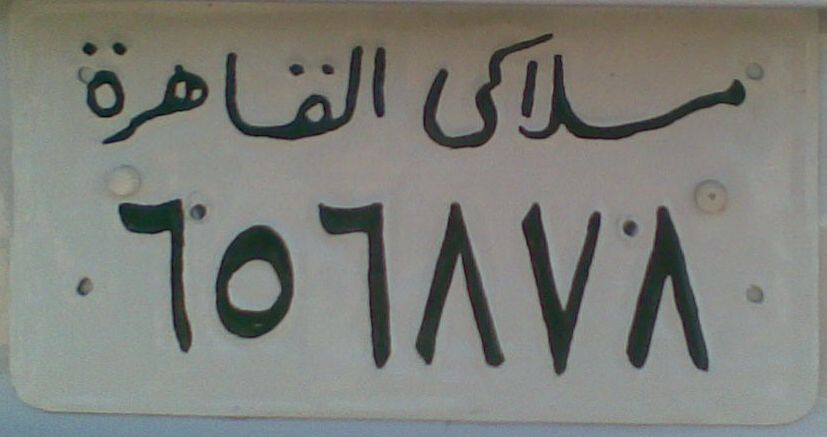 1980s Egyptian vehicle registration number